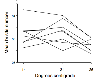 Mean Bristle Number by Degrees Centigrade